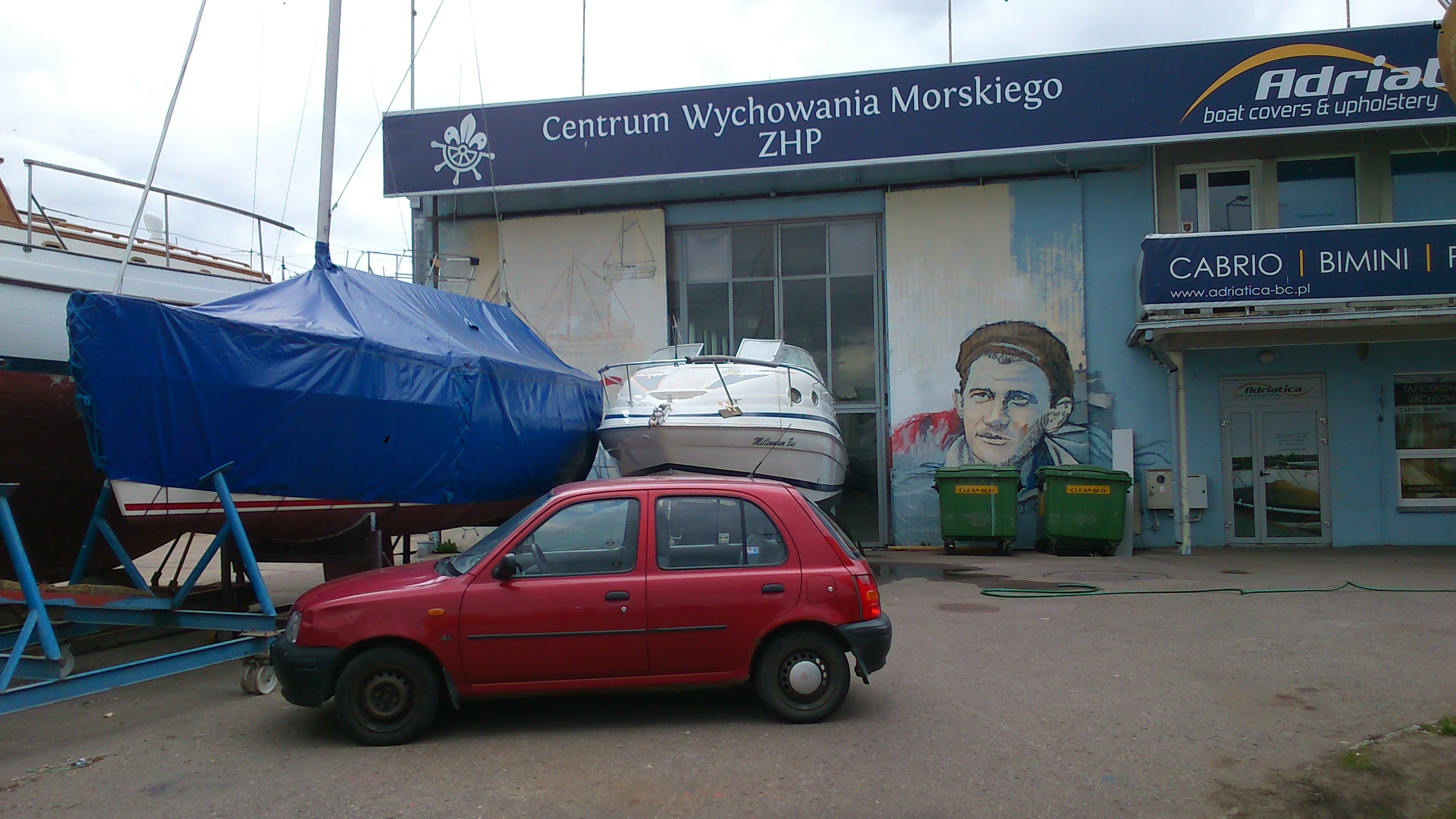 Centrum Wychowania Morskiego ZHP (Maritime training center of Polish Scouting and Guiding Association in Gdynia.